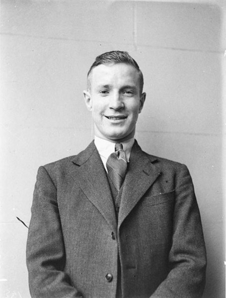 C.S. Davis, second best leaving certificate pass (top in Mathematics, second in Physics) in New South Wales (1934)